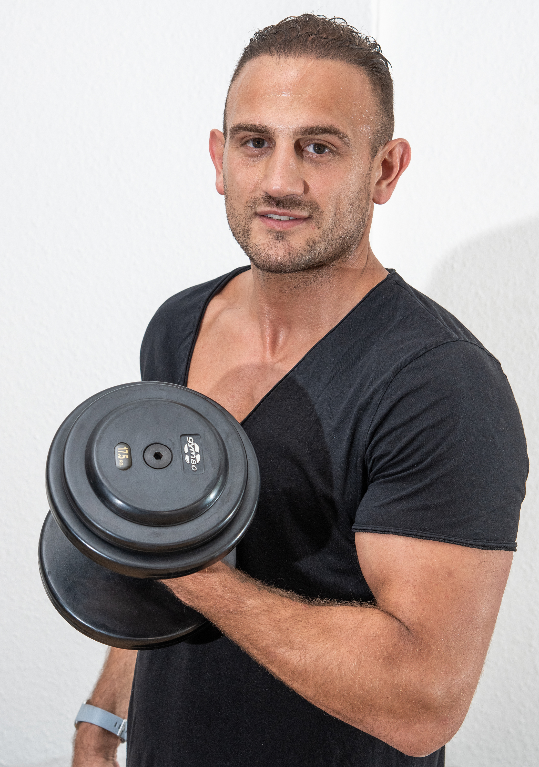 Former professional boxer and today's boxing coach Francesco Pianeta, 2019